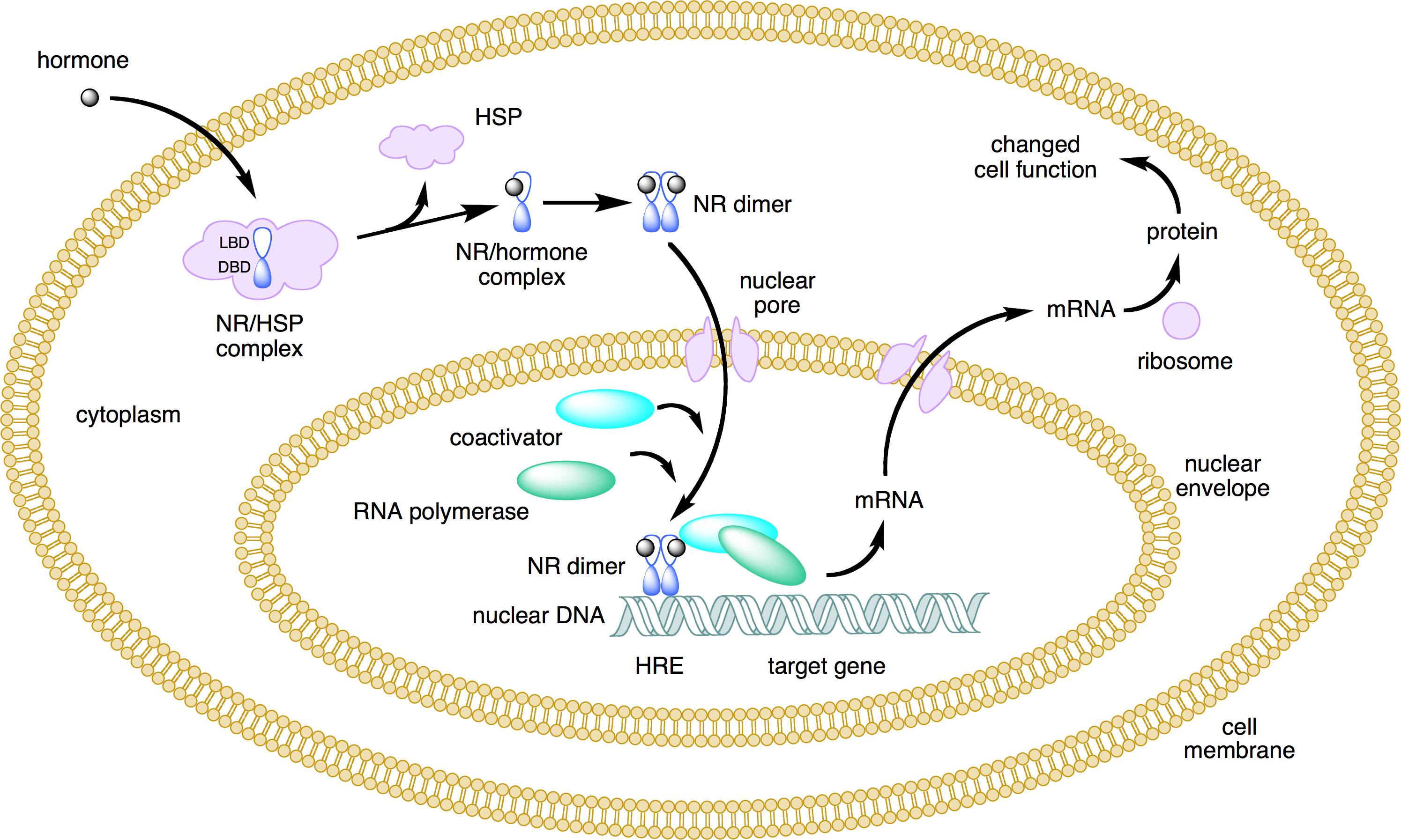 Created myself using CambridgeSoft BioDraw.Boghog2 10:14, 9 June 2007 (UTC) Mechanism nuclear receptor action. This figure depicts the mechanism of a class I nuclear receptor (NR) which, in the absence of ligand, is located in the cytosol. Hormone binding triggers dissociation of heat shock proteins (HSP), dimerization, and translocation to the nucleus where it binds to a specific sequence of DNA known as a hormone response element (HRE). The nuclear receptor DNA complex in turn recruits other proteins that are responsible for translation of downstream DNA into RNA and eventually protein which results in a change in cell function